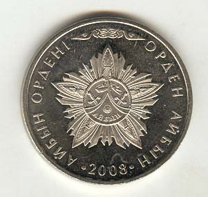 Kazakh 50 Tenge coin